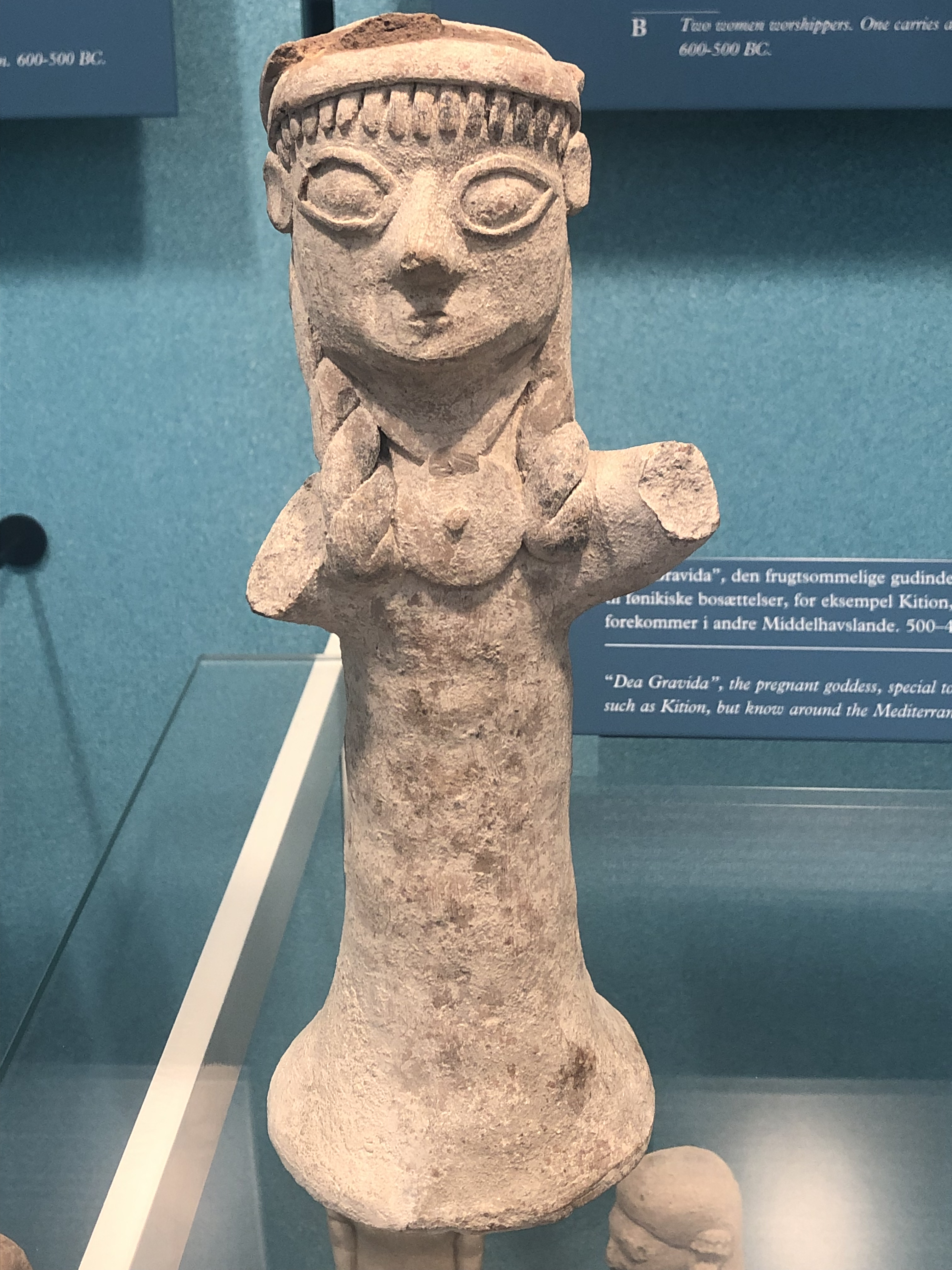 from the NationalMuset in Denmark